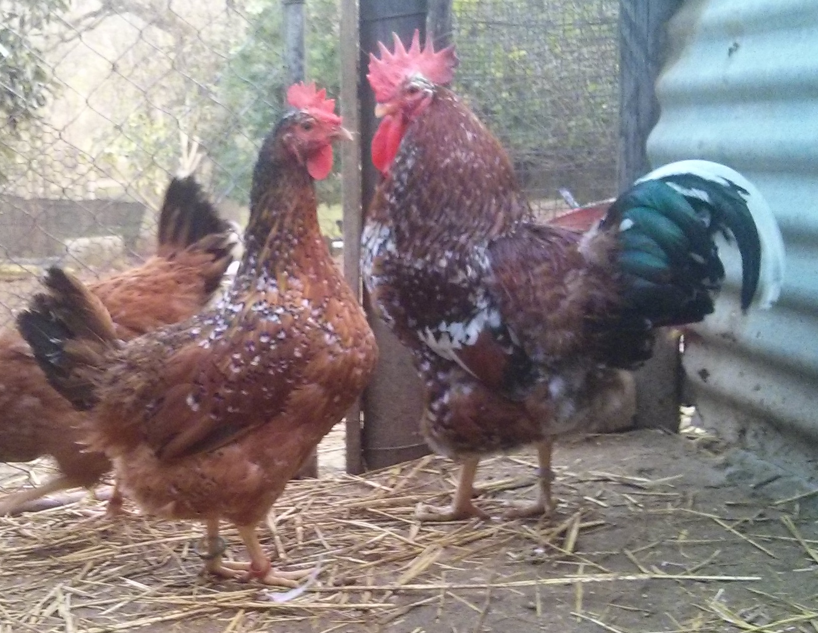 Hen and cock of the Venda chicken race